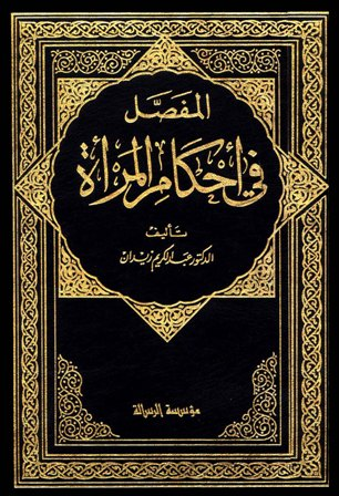 صورة غلاف كتاب المفصل في أحكام المرأة والبيت المسلم في الشريعة الإسلامية لمؤلفه عبدالكريم زيدان والذي حاز به جائزة الملك فيصل العالمية سنة 1417 هـ / 1997م في الدراسات الإسلامية التي تناولت مكانة المرأة في الإسلام بسبب تأليفه لهذا الكتاب الذي يتألف من 11 مجلداً.